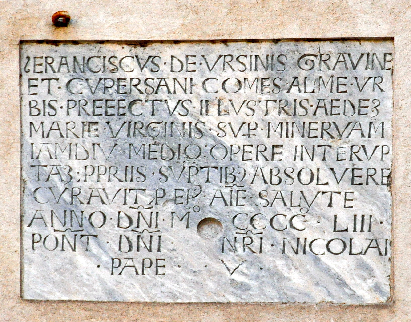 Santa Maria sopra Minerva (Rome), Fasade, inscription Francesco Orsini